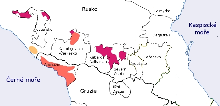 Map of northwestcaucasic languages - cz